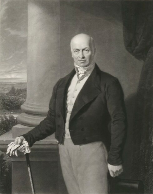 Portrait of Thomas Law Hodges (1776–1857), English politician.